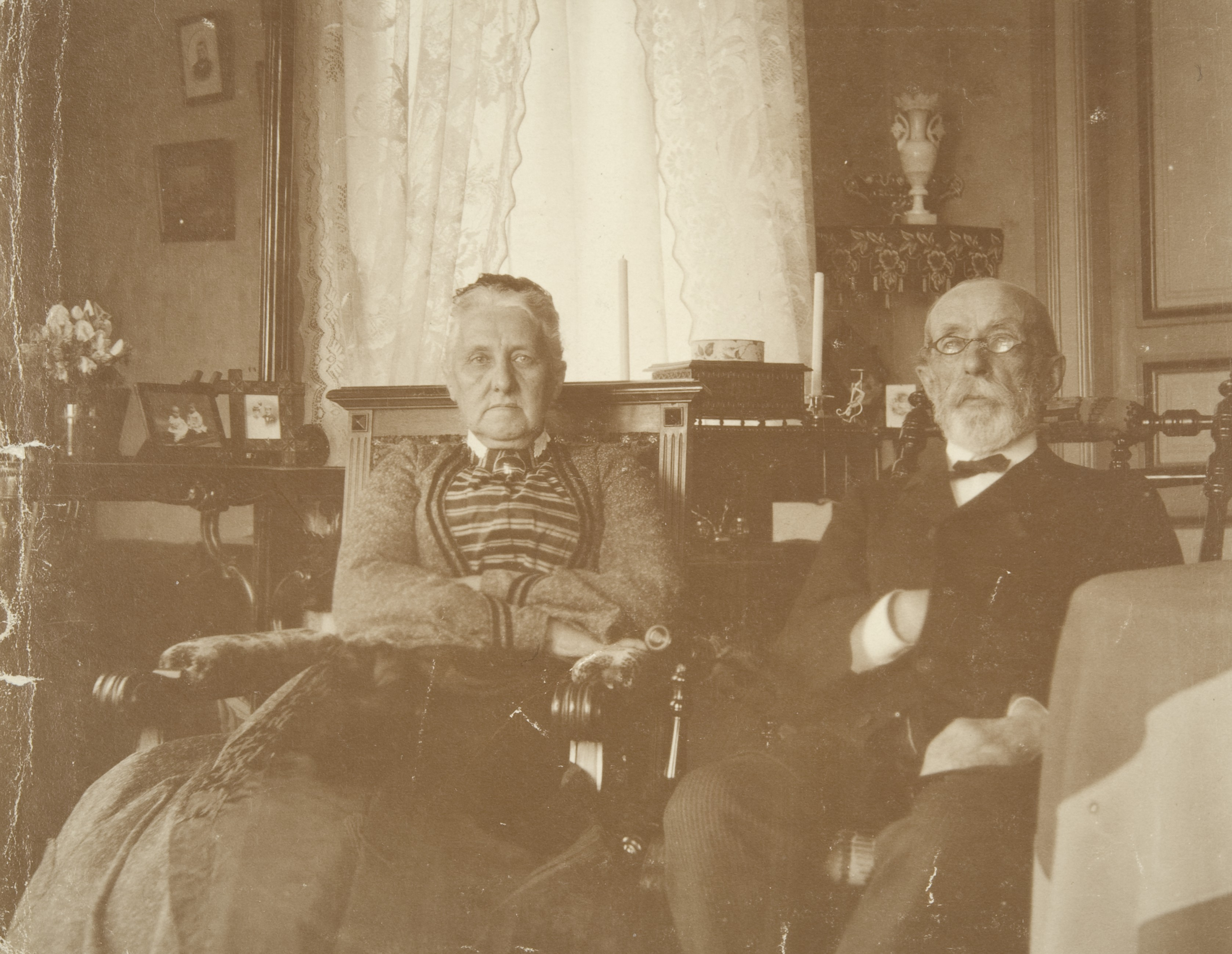 Carl Henrik Ahlqvist with his wife Anna Lovisa, 1900.